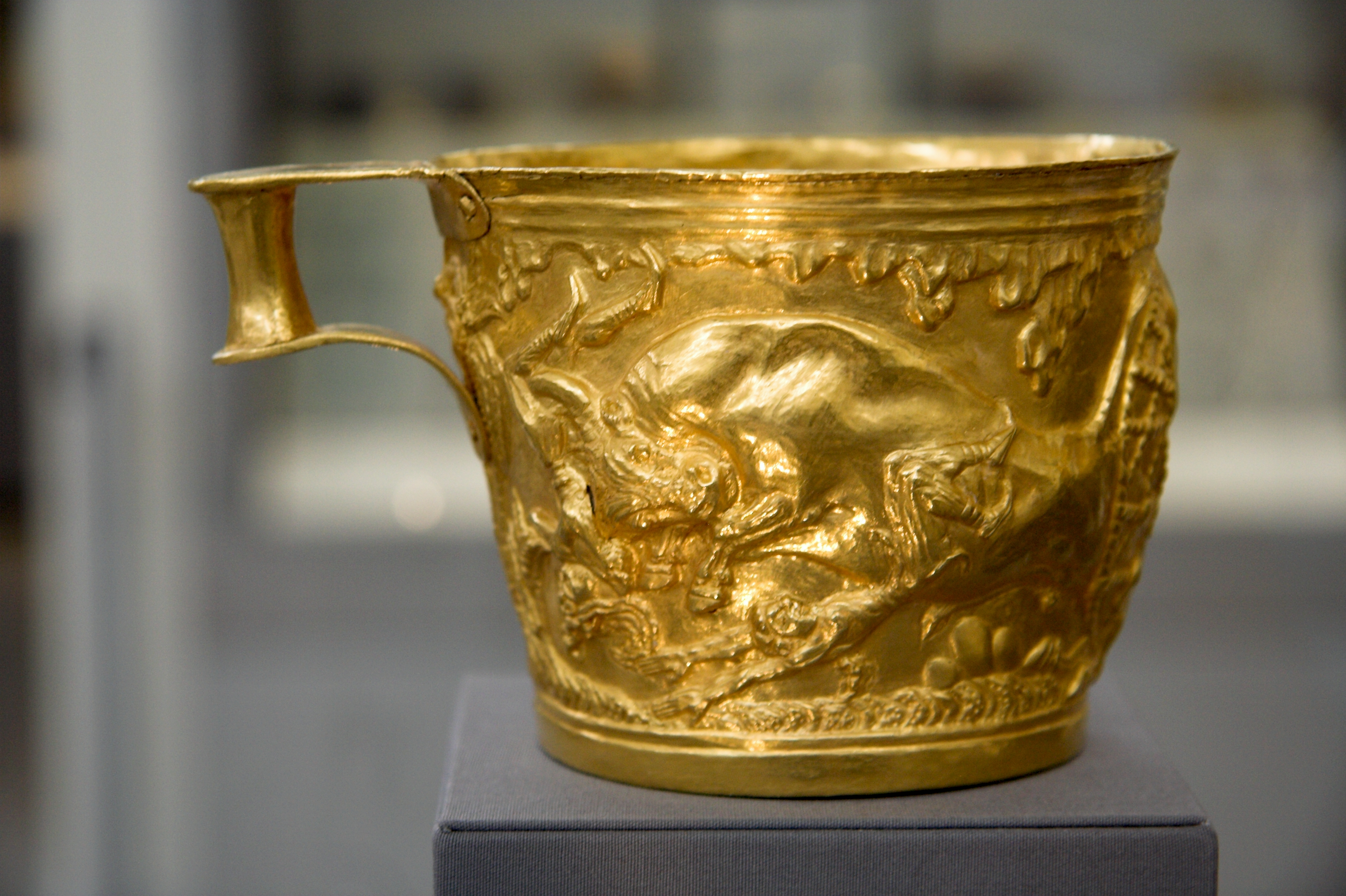 Gold cup with relief: Bull defeated man. Vafio (Vapheio) at Sparta, Peloponnese. Late Bronze Age, 1500 to 1450 BC. National Archaeological Museum of Athens N 1758.